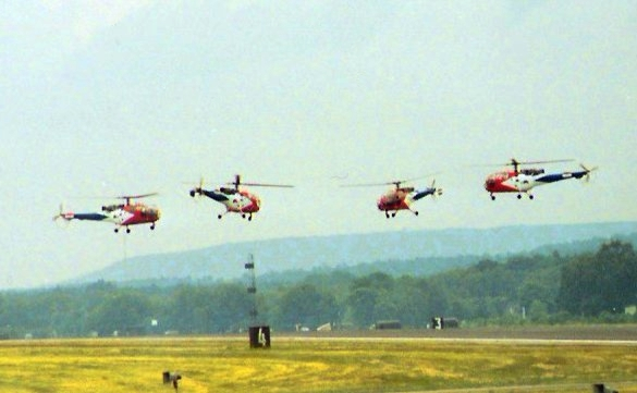 Alouette III of the Dutch Grasshoppers aerobatics team at Ramstein Air Base, Rhineland-Palatinate (Germany) on 24 June 1984.